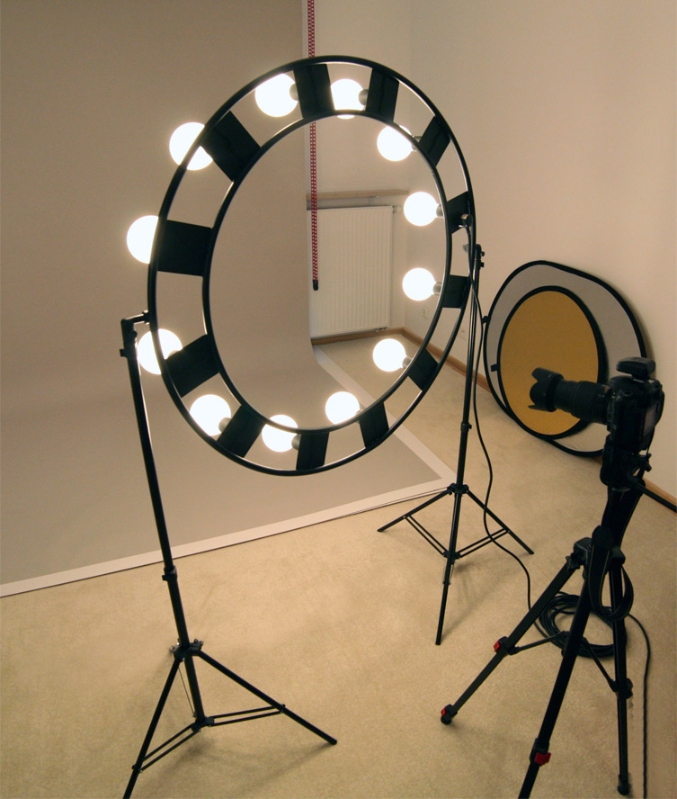 Ringlight (ring light)